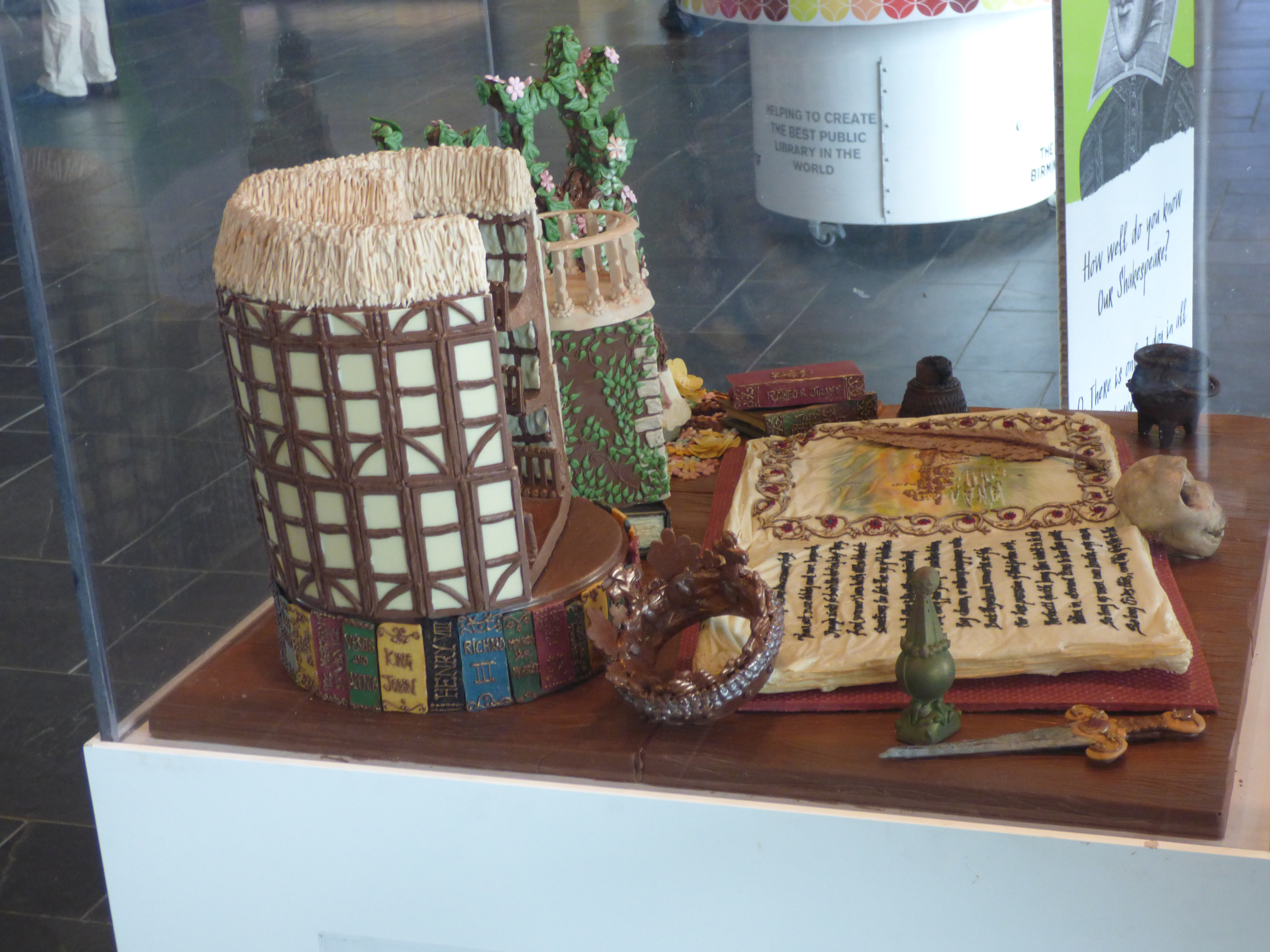 At the Library of Birmingham in July 2016. Cadbury World - Shakepeare Lives - side view - think the bit at the back is the Globe Theatre. All made out of chocolate.